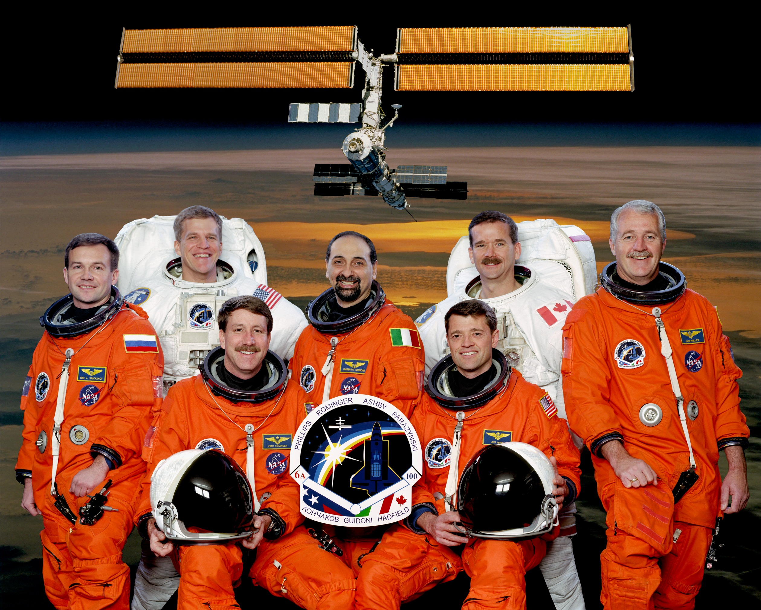 These international astronauts and cosmonaut have been in training in a number of venues for the April 2001 visit to the International Space Station (ISS). Seated are astronauts Kent V. Rominger (left) and Jeffrey S. Ashby, commander and pilot, respectively, for the STS-100 mission. Standing, from the left, are cosmonaut Yuri V. Lonchakov, with astronauts Scott F. Parazynski, Umberto Guidoni, Chris A. Hadfield and John L. Phillips, all mission specialists. Guidoni represents the European Space Agency (ESA); Hadfield is with the Canadian Space Agency (CSA) and Lonchakov is affiliated with Rosaviakosmos.